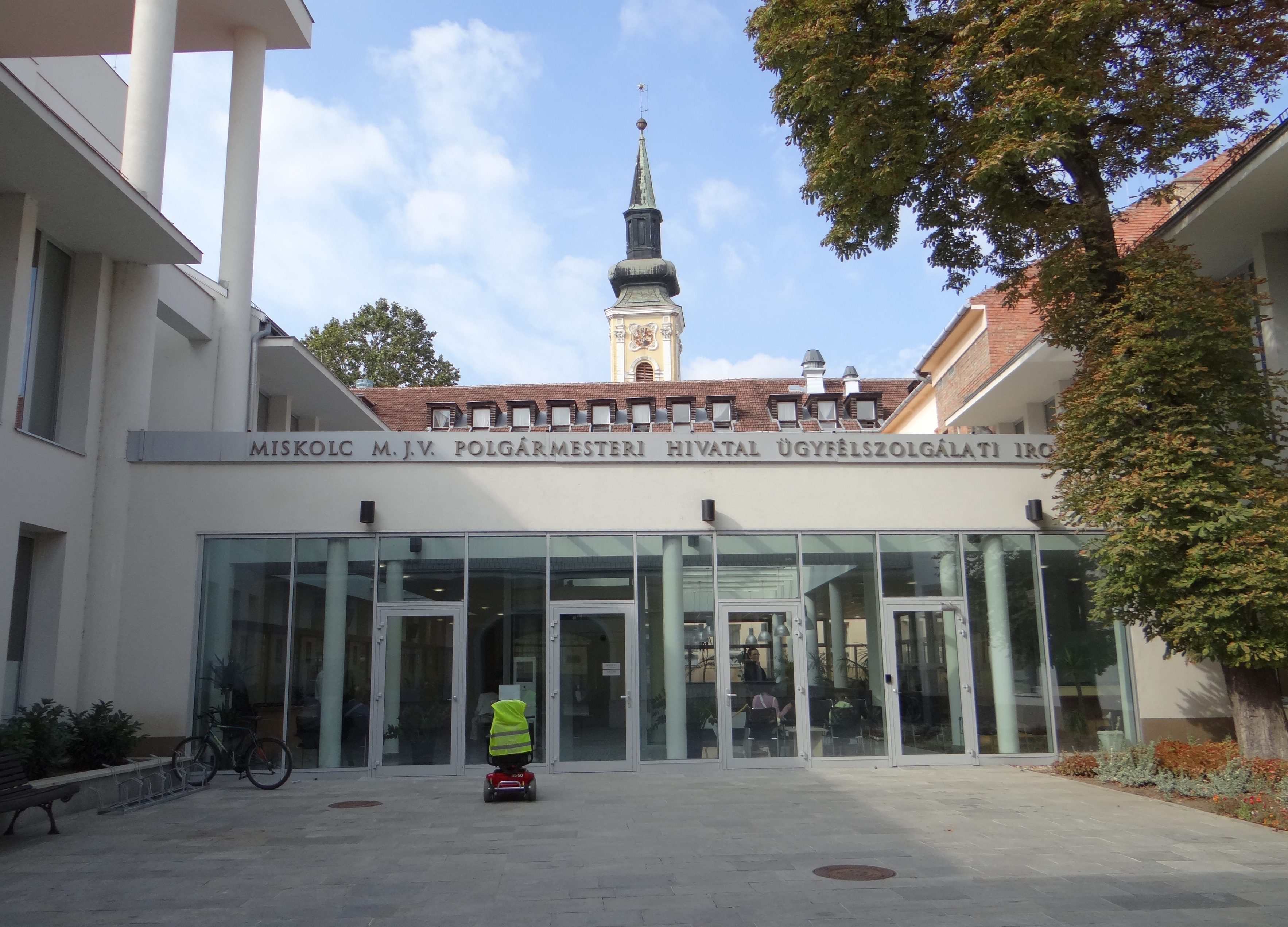 City Hall, 8 Városház Square, Miskolc, Hungary